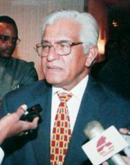 Sampson Nanton interviews former Prime Minister of the Republic of Trinidad and Tobago, Basdeo Panday in 1997